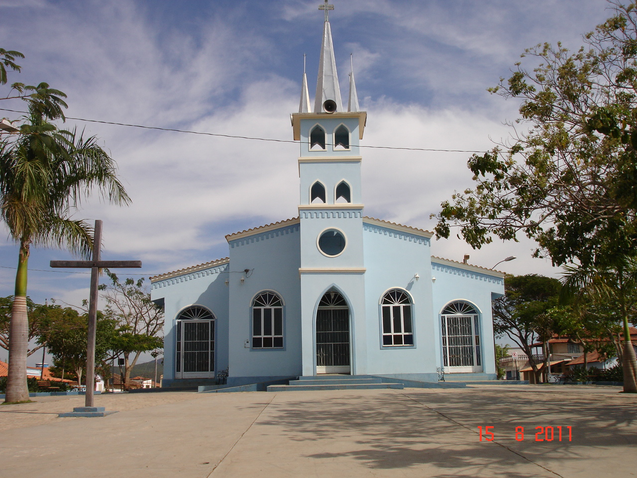 Picture of the church in the main square at Corumbá - Cláudio (MG).